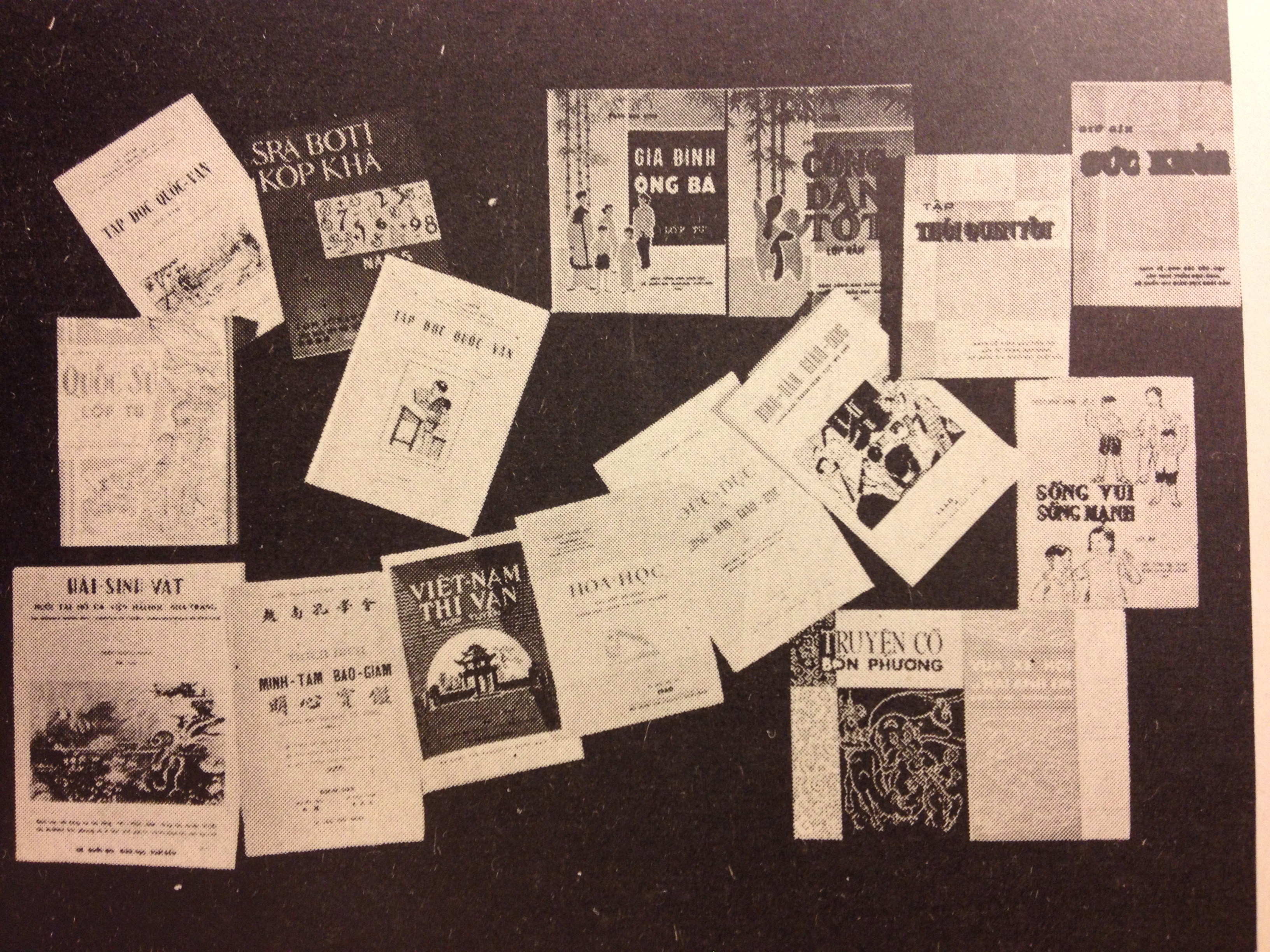 Books published by the Republic of Vietnam Department of National Education